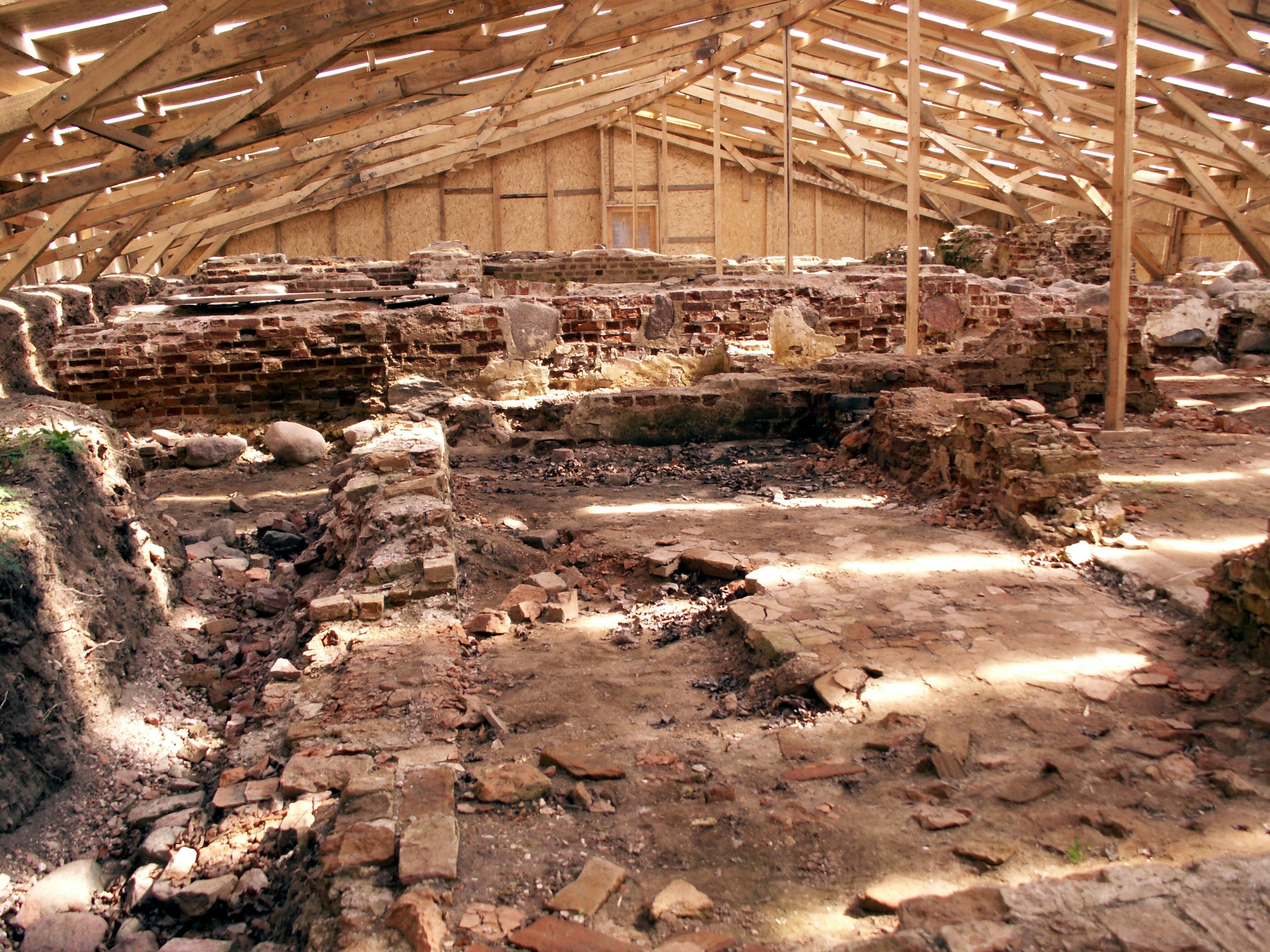 Ruins of Dubingiai castle, Lithuania